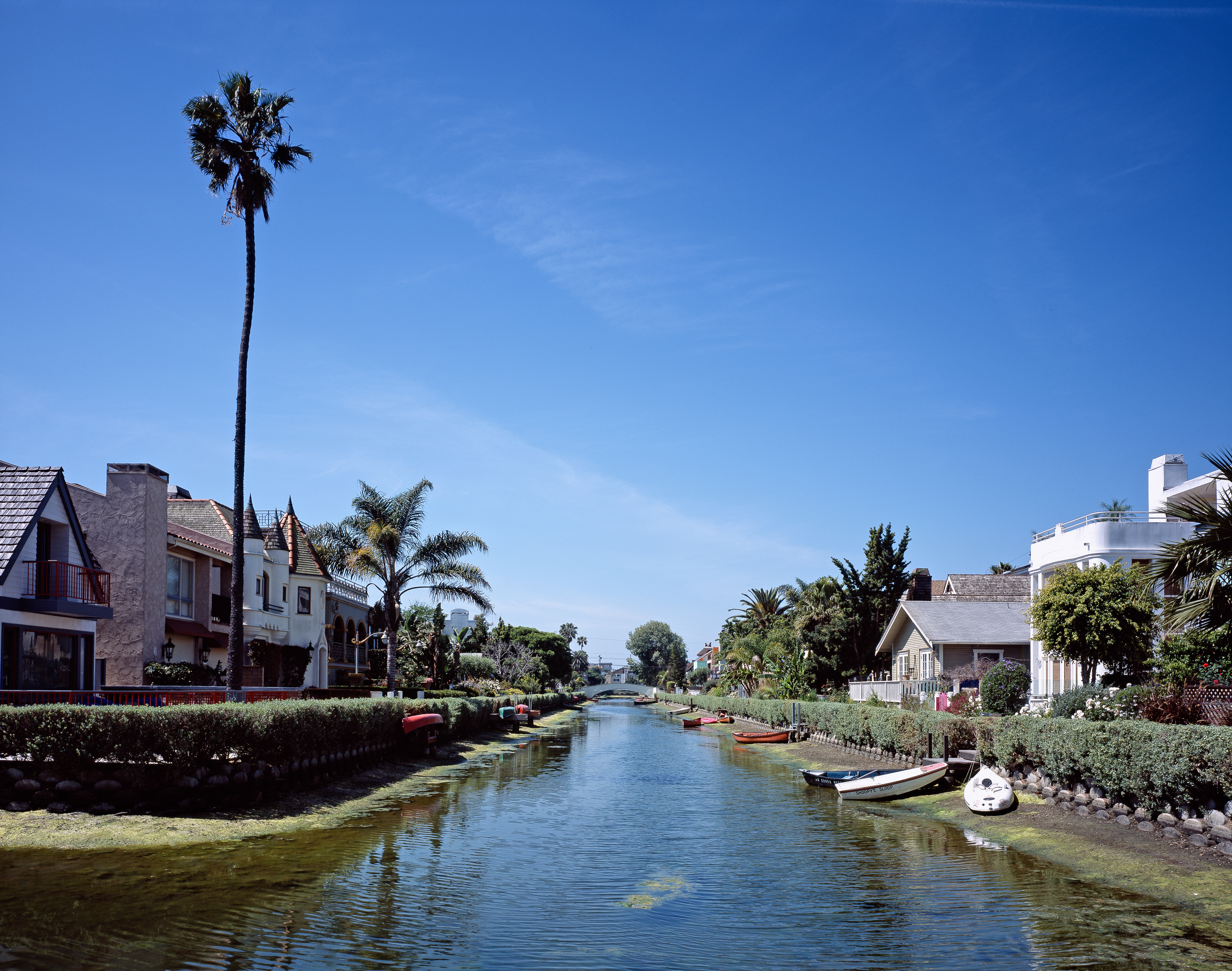 Photograph by Carol M. Highsmith of canals in Venice, a section of Los Angeles.